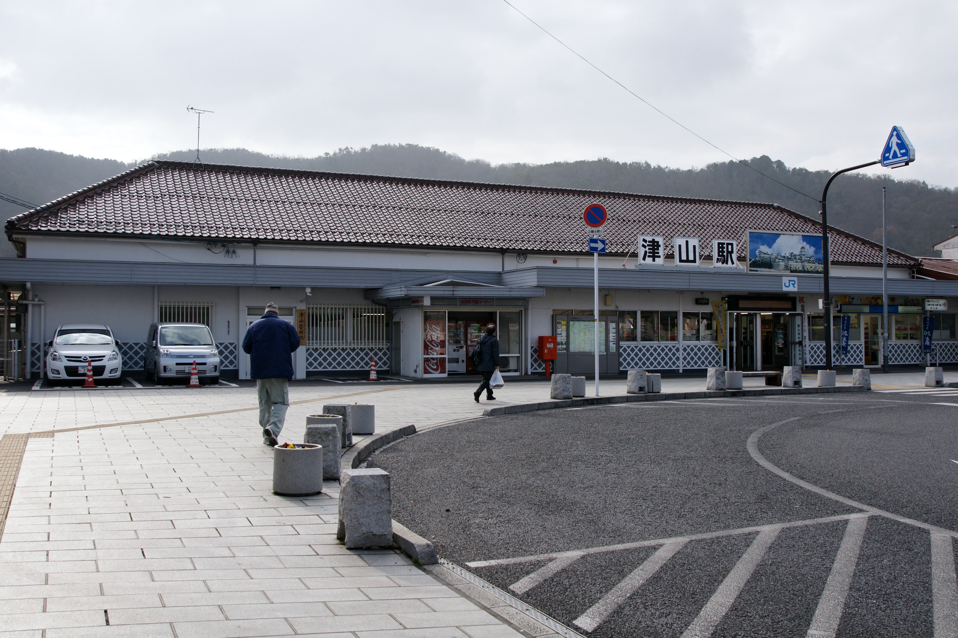 Tsuyama Station in Tsuyama, Okayama prefecture, Japan